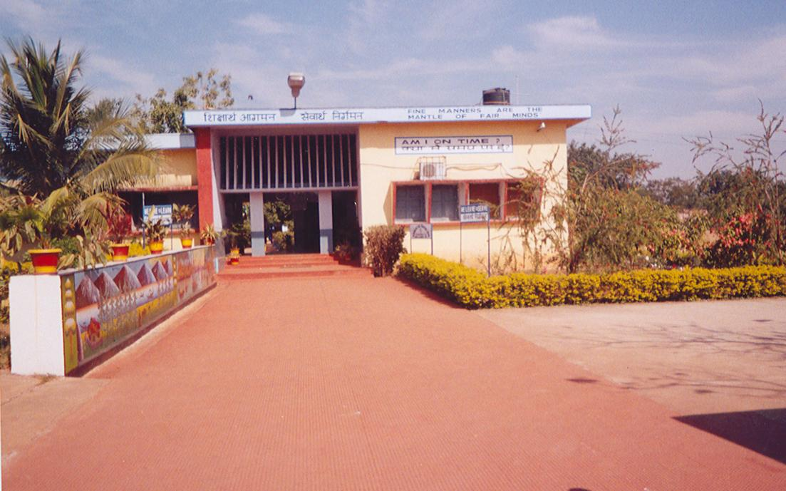 Entrance of Kendriya Vidyalaya, Charbatia, Cuttack, Orissa.